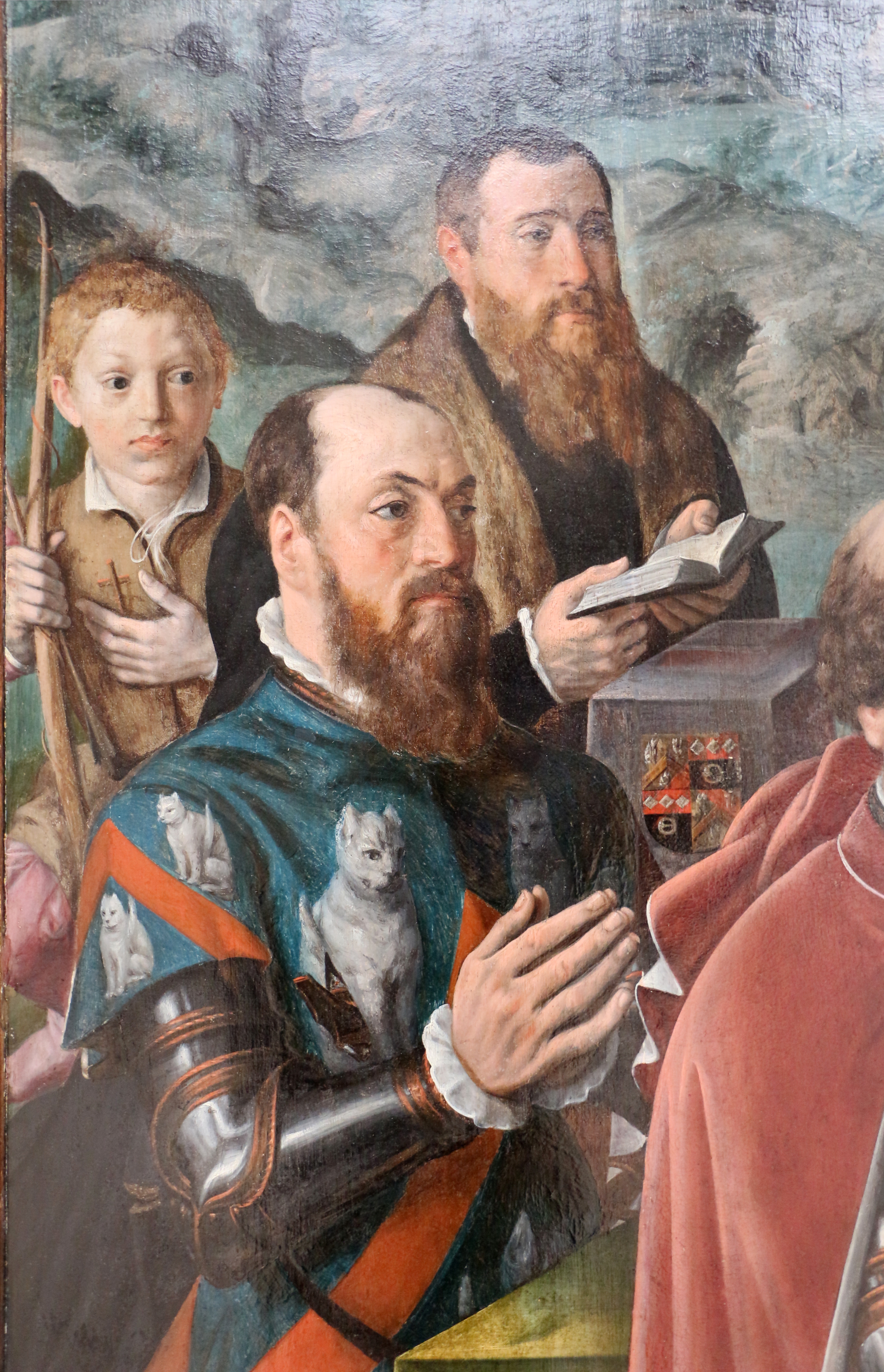 Triptych of Micault Family, Nicolas Micault